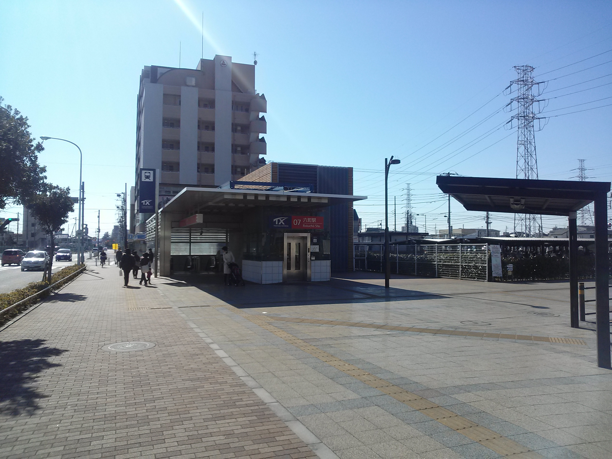 Exit A1 of Rokuchō Station on the Tsukuba Express Line